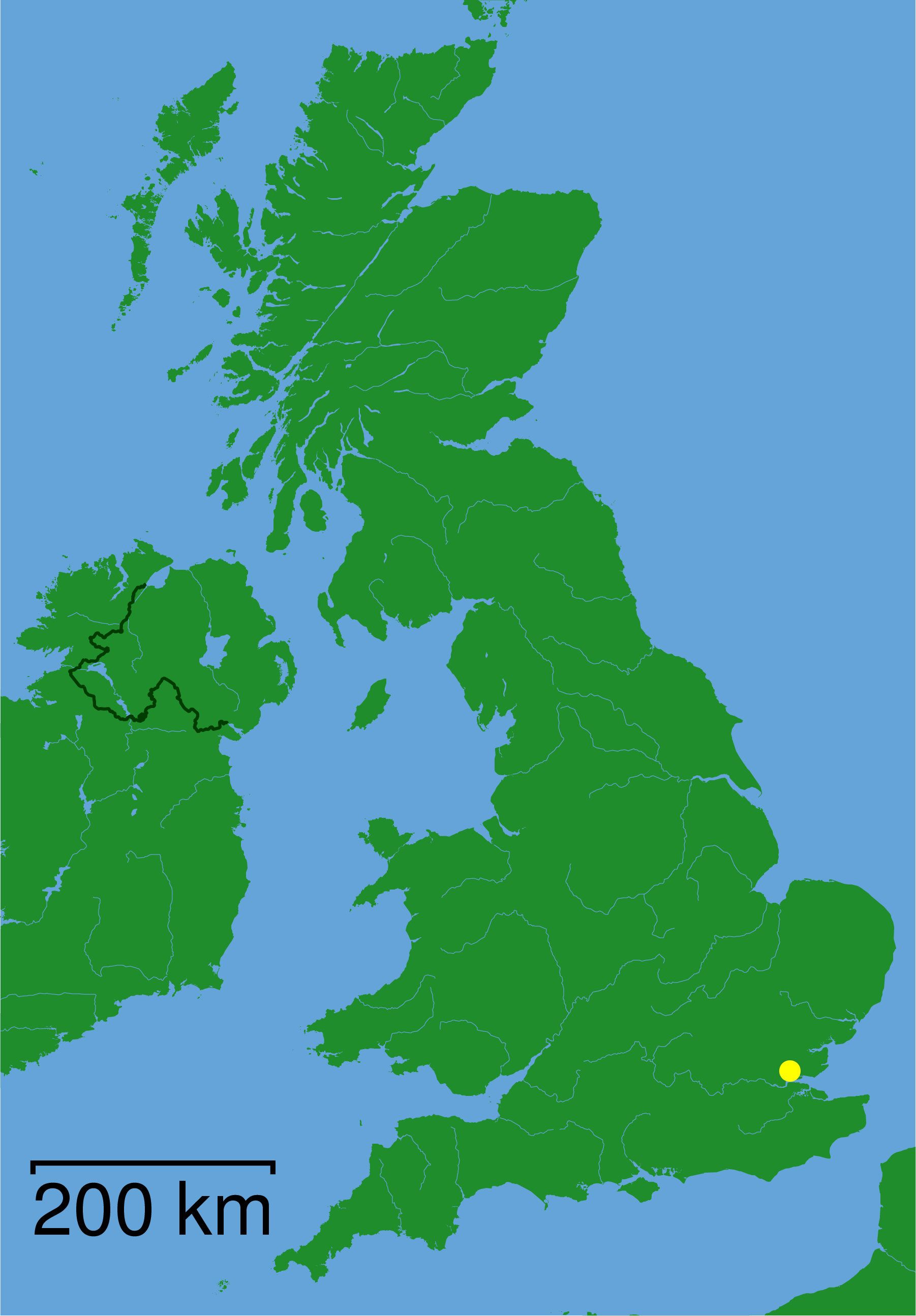 Basildon in Great Britian, marked with a dot